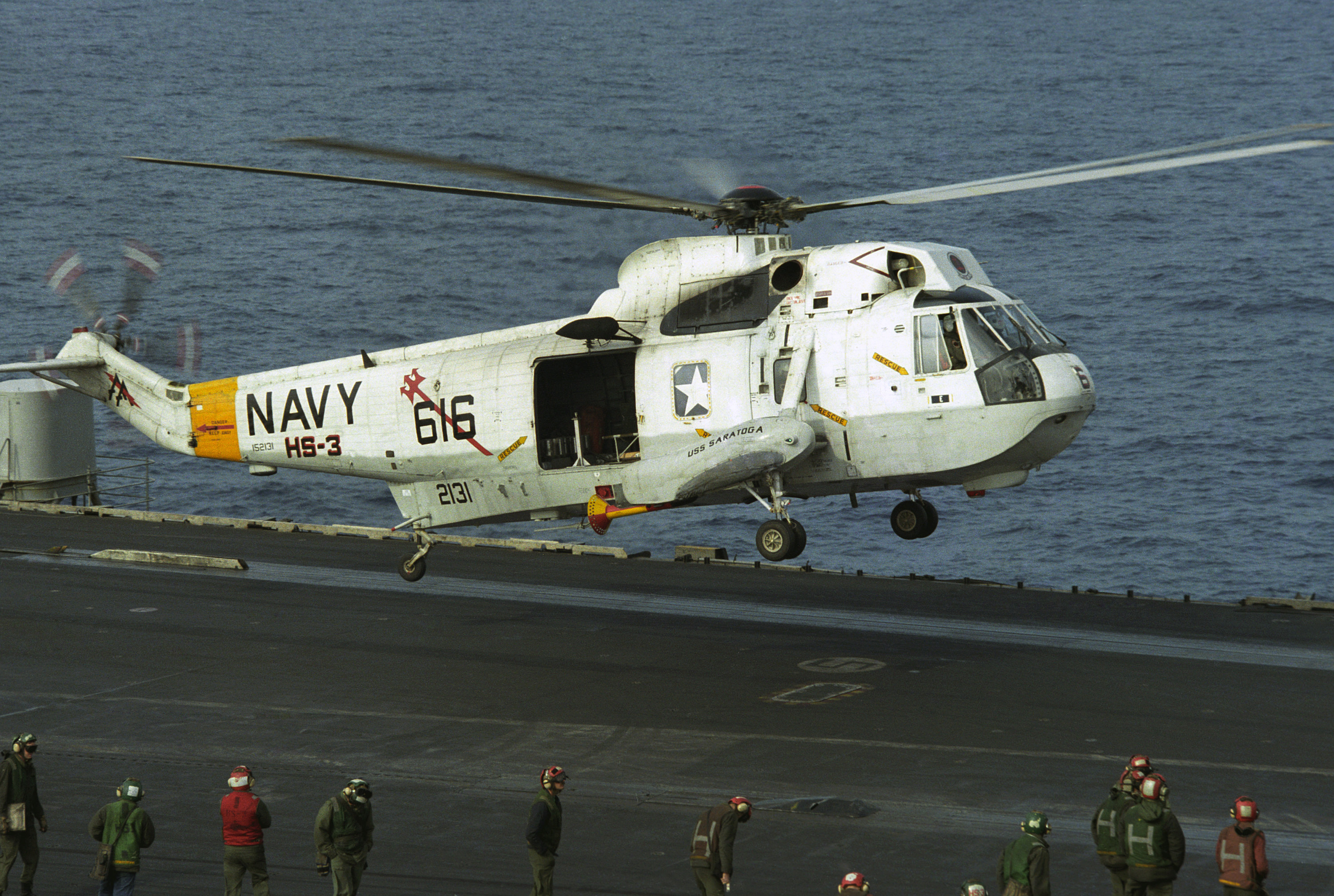 A U.S. Navy Sikorsky SH-3H Sea King helicopter (BuNo 152131) from helicopter anti-submarine squadron HS-3 Tridents landing aboard the aircraft carrier USS Saratoga (CV-60) on 22 March 1986. HS-3 was assigned to Carrier Air Wing 17 (CVW-17) aboard the Saratoga for a deployment to the Mediterranean Sea from 16 August 1985 to 16 April 1986.